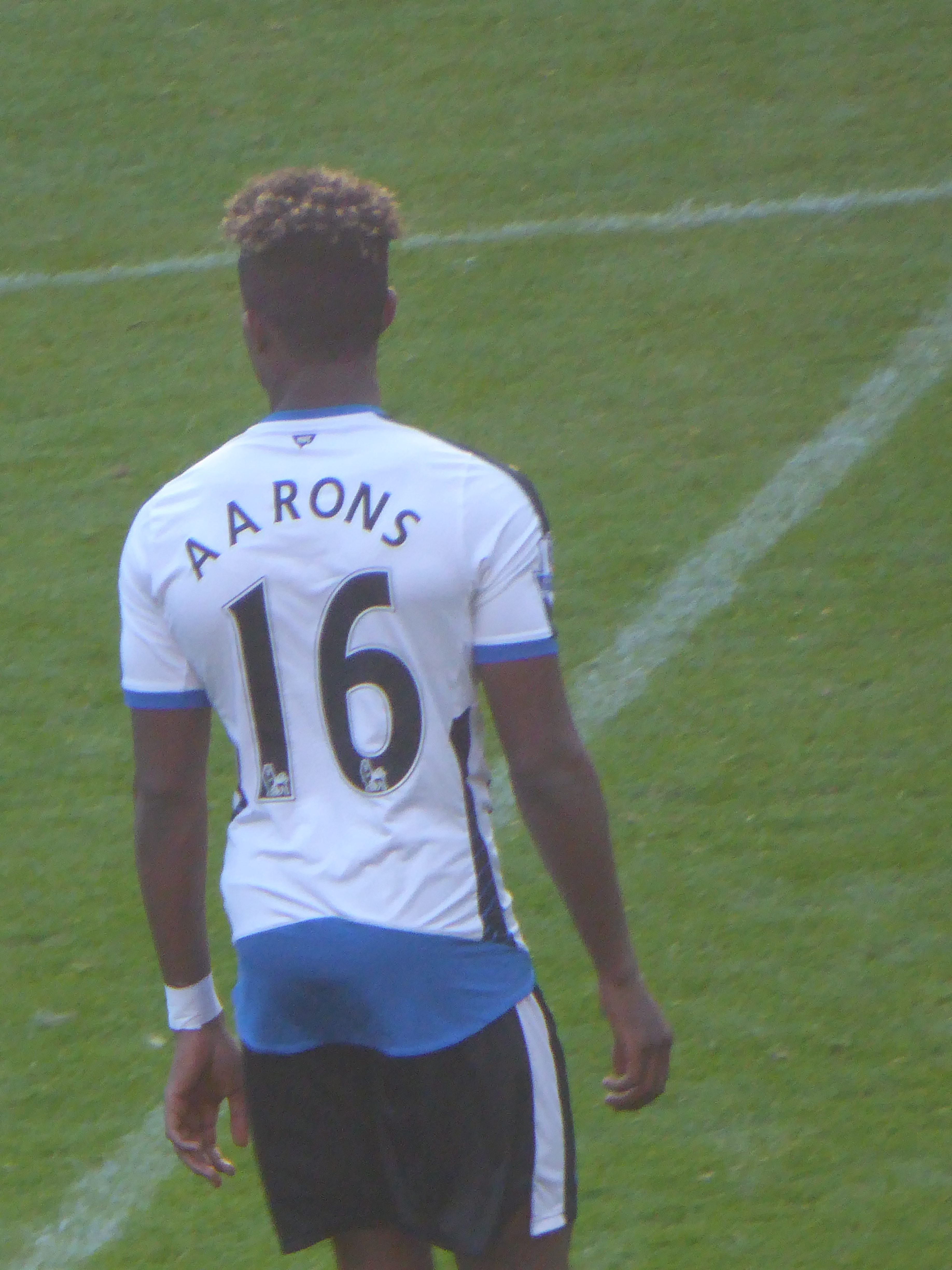 Newcastle United vs Watford (1-2), Barclays Premier League, St James' Park, Newcastle upon Tyne, Tyne and Wear, England, September 2015